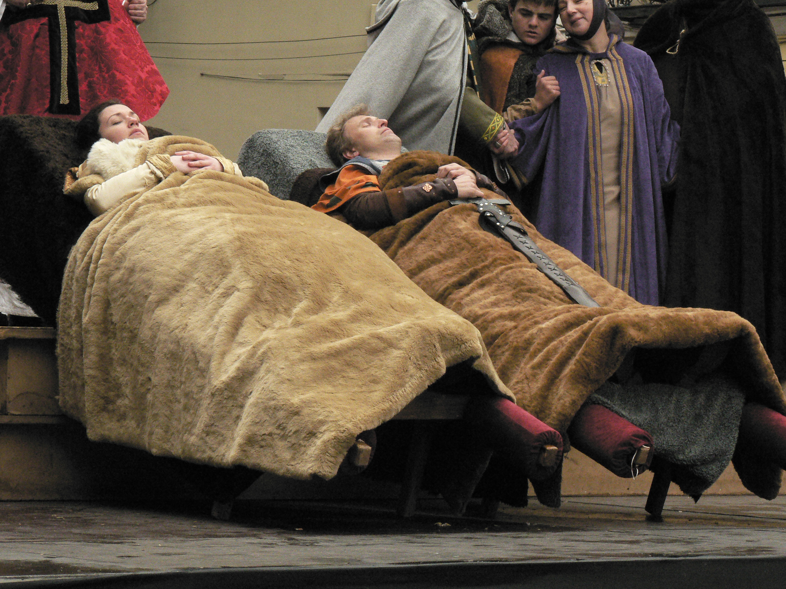 This is a photography of a Folklore festival in Spain (Wikidata id Q23657061).